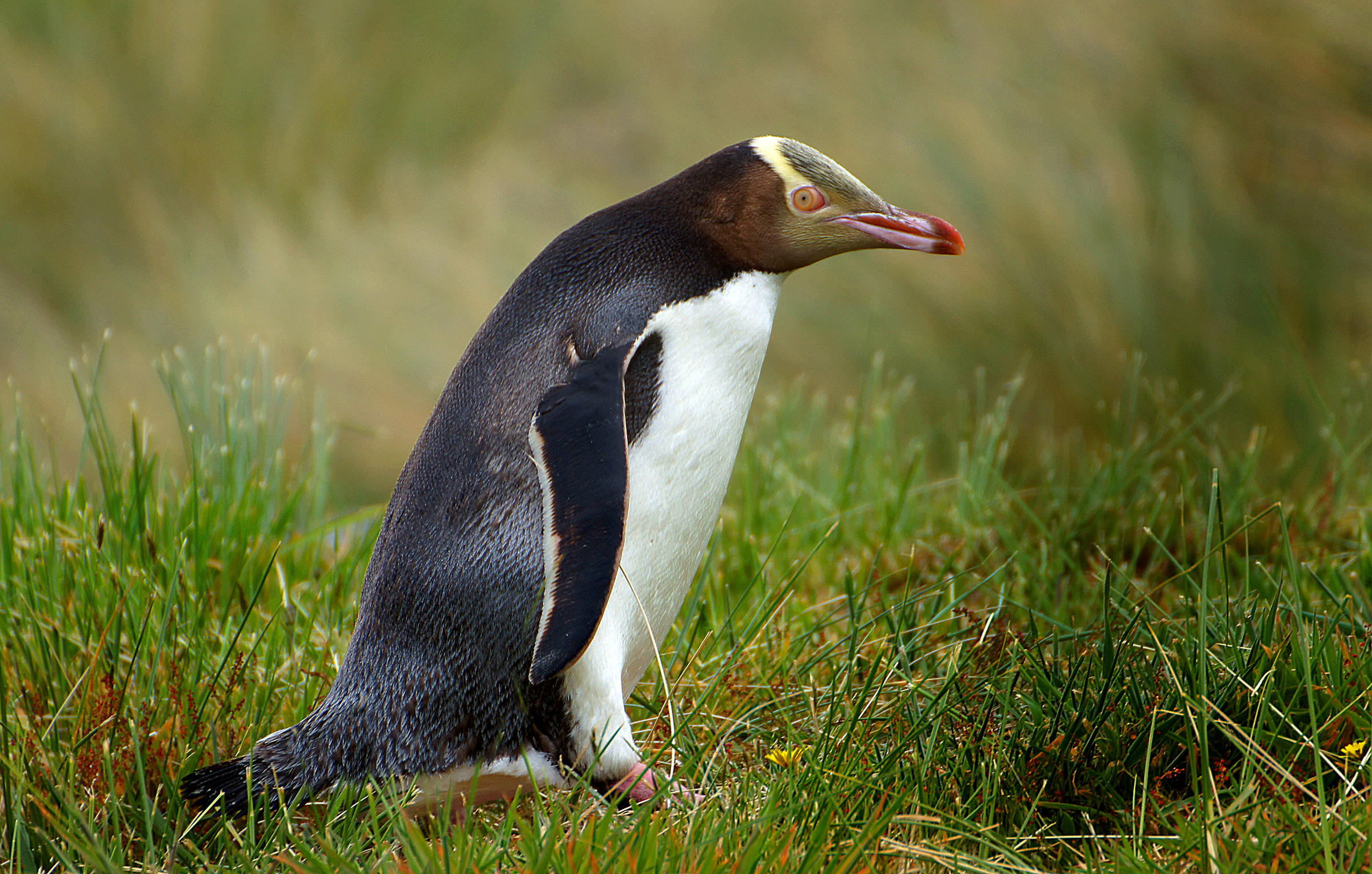 The yellow-eyed penguin/hoiho (Megadyptes antipodes) is named for its yellow iris and distinctive yellow headband. Adults are grey-blue in colour, with a snow-white belly and pink feet. Yellow-eyed penguin in dunes. Photo: Rod Morris. The yellow-eyed penguin/hoiho is named for its yellow iris and distinctive yellow headband Their chicks are covered in thick, brown fluffy feathers that they shed to fledge at between 98 to 120 days. Their immature plumage has a yellow head band and extends to a yellow head with fully adult plumage when they're 14 - 16 months old. The species' Māori name, hoiho - noise shouter - refers to their shrill call. Often heard when they encounter others in their colony. Lifespan: lenghty as some individuals can live up to 20 years and the oldest recorded banded bird was over 20. Size: adults reach around 65 cm in height and weigh around 5 to 5.5 kg. Diet: small to medium sized fish such as sprat, red cod, and squid. Behaviour: the only penguin species that doesn't become tame. Also the least social and a solitary breeder.